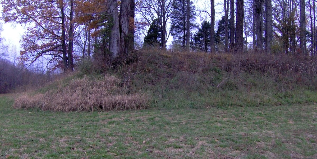 The southwest corner of Mound 28 at Pinson Mounds State Archaeological Park in Madison County, Tennessee, located in the Southeastern United States. Mound 28 is a "platform" mound shaped like a 3-dimensional trapezoid. This mound is appx. 1,500 meters east-northeast of Sauls' Mound.